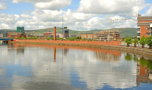 The River Lagan, Belfast (2). The western side 495197 of the Lagan has changed beyond recognition during the last 16 years 1050561. This (eastern) side has changed by the demolition of the old Sirocco Works and will change further, over the next ten (or so), as work progresses on the Sirocco Quays development 761581. The view is downstream from the Albert Bridge.